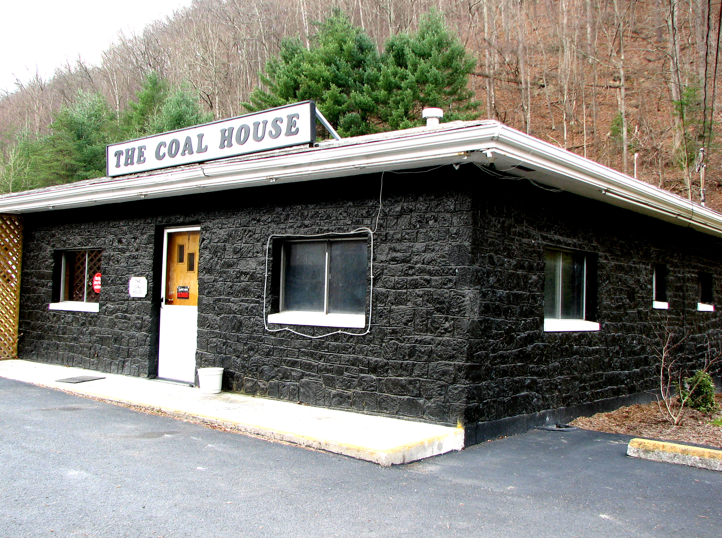 A building, built entirely of 30 tons of West Virginia's anthracite coal; was used as a gift shop where items of coal were sold – figurines and other carvings in coal. Has since faltered and now for sale.